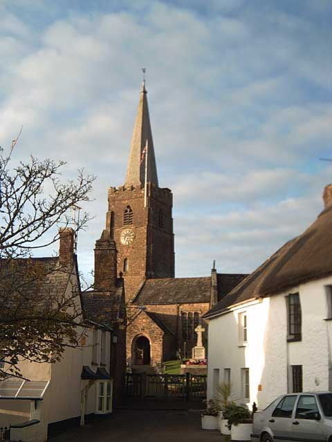 St John the Baptist's Church, Hatherleigh.